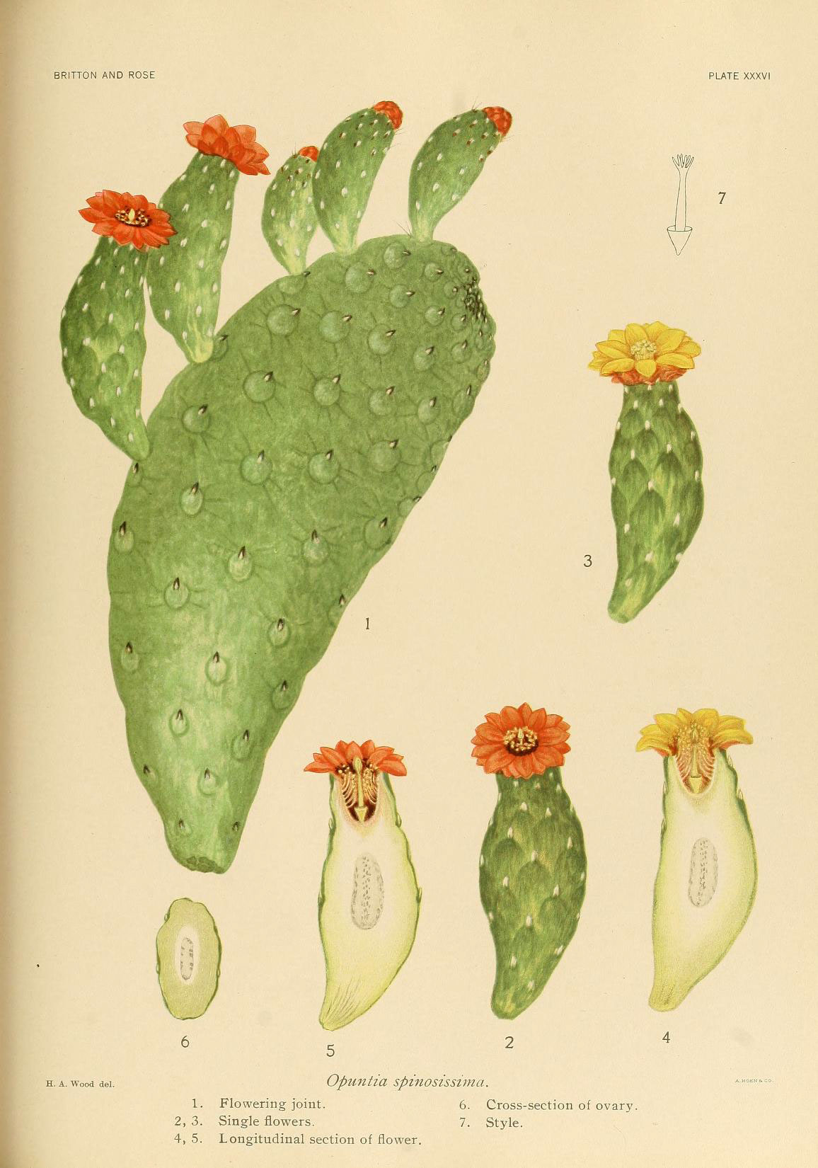 BRITT0N AND ROSE H. A. Wood del. Opu7itia spinosissima. 1. Flowering joint. 6. Cross-section of ovary. 2, 3. Single flowers. 7. Style. 4, 5. Longitudinal section of flower.